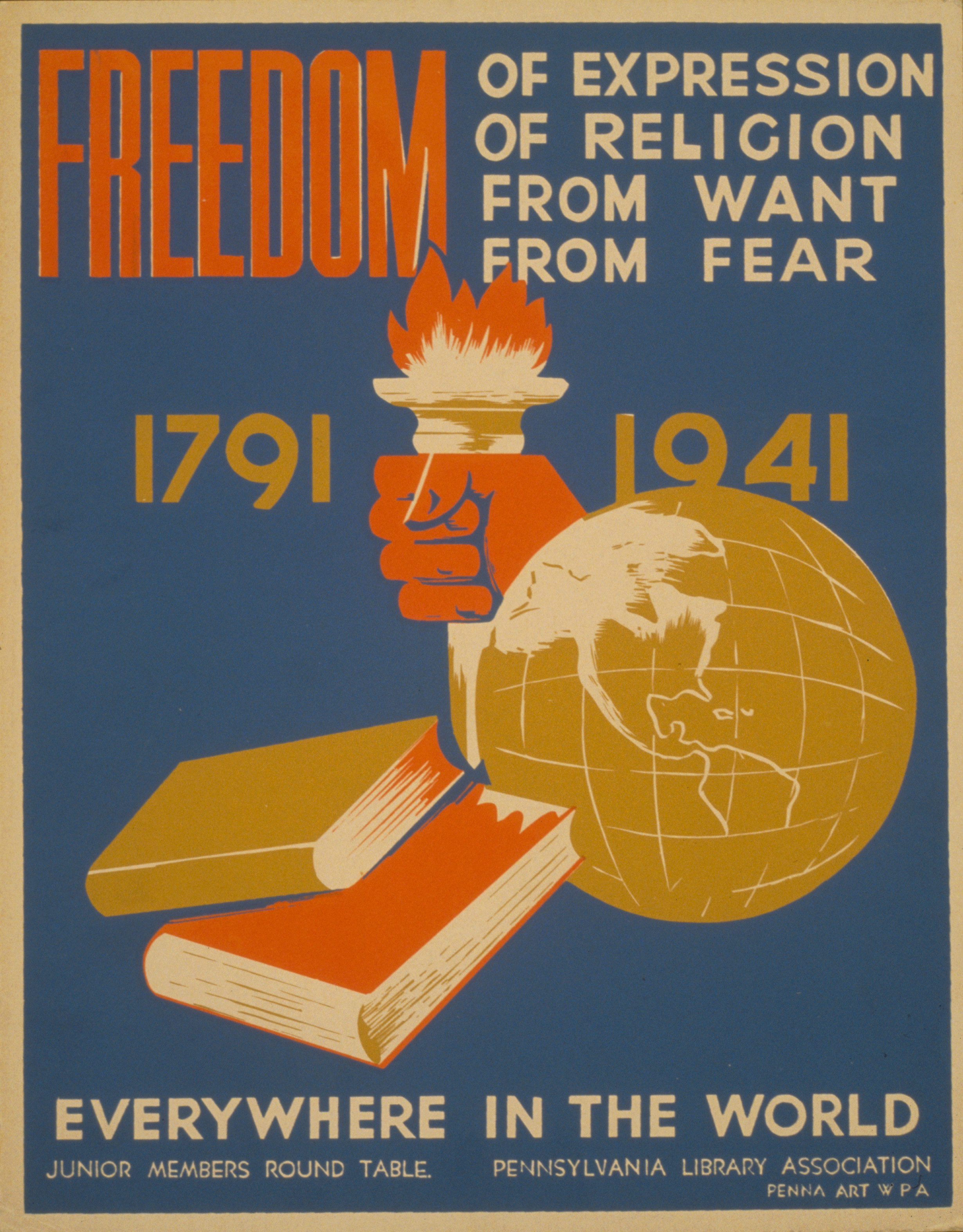 Title: Freedom of expression, of religion, from want, from fear everywhere in the world Abstract: Poster promoting President Franklin Delano Roosevelt's four freedoms, showing a globe, two books, and the hand and torch from the Statue of Liberty. Physical description: 1 print on board (poster) : silkscreen, color. Notes: Work Projects Administration Poster Collection (Library of Congress).; Exhibited in: American Responses to Nazi Book Burning, U.S. Holocaust Memorial Museum, Washington, D.C., 2003.